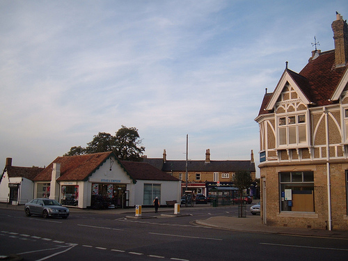 Sandy Market Square, Sandy, Bedfordshire